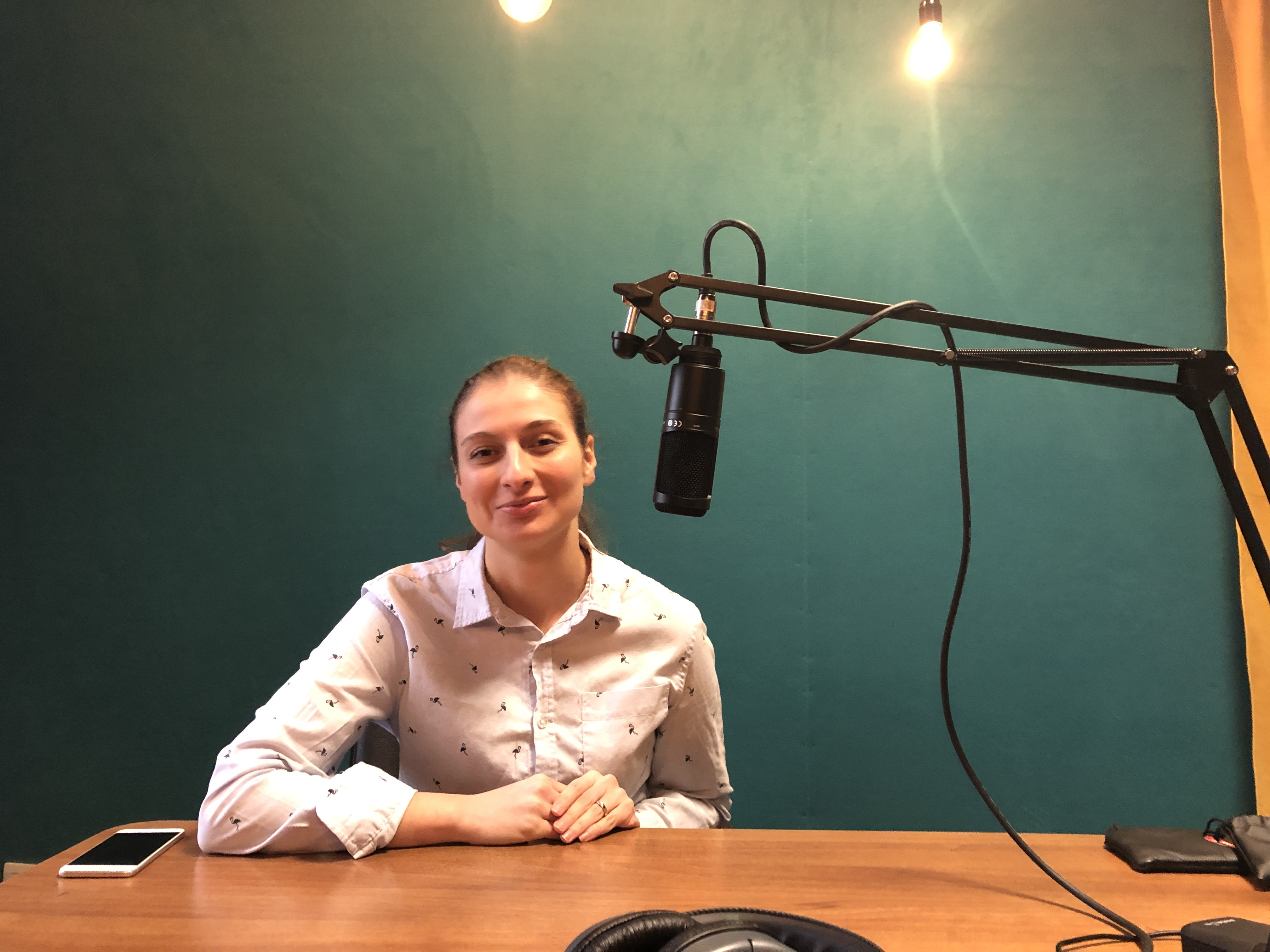 Nevena Borisova - Bulgarian writer